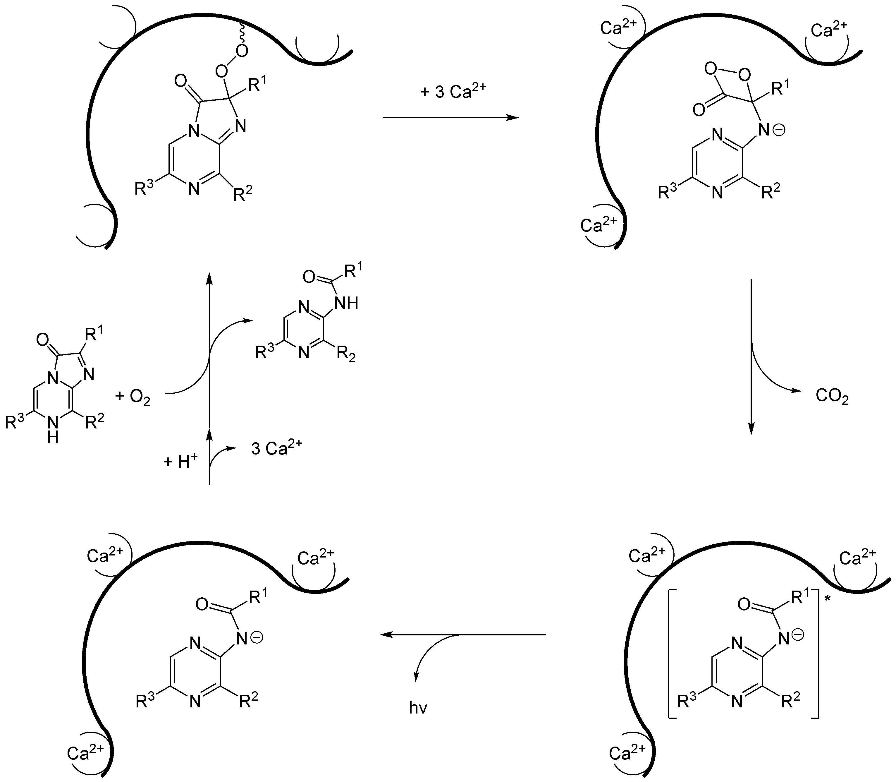 lightreaction of coelenterazine in Aequorin